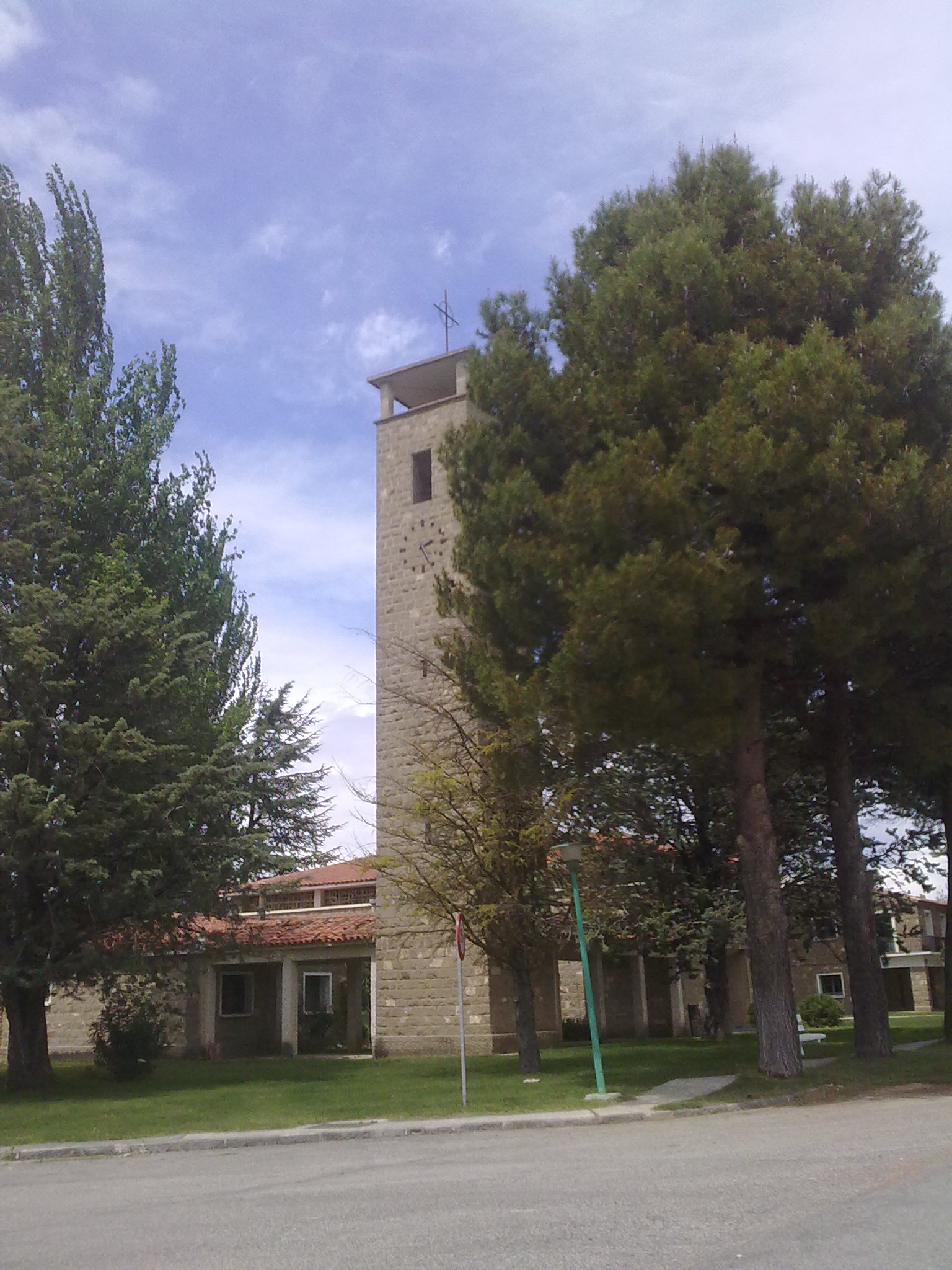 Church of Gabarderal.